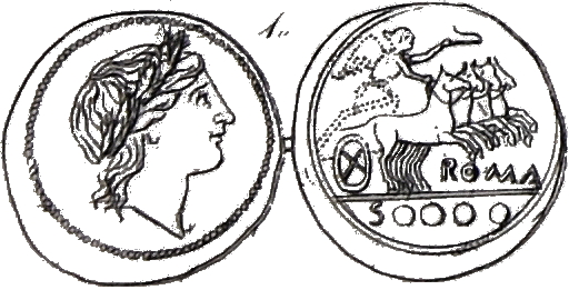 Image from File:L'aes grave del Museo Kircheriano.djvu Dextans, a rare Roman coin. Mint of Luceria, in Apulia Head of Ceres Victory in quadriga. Below ROMA. In exergue: S••••